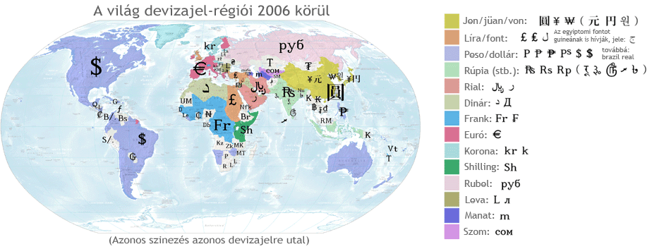 Hungarian versions of 'Currency symbols of the World, circa 2006'